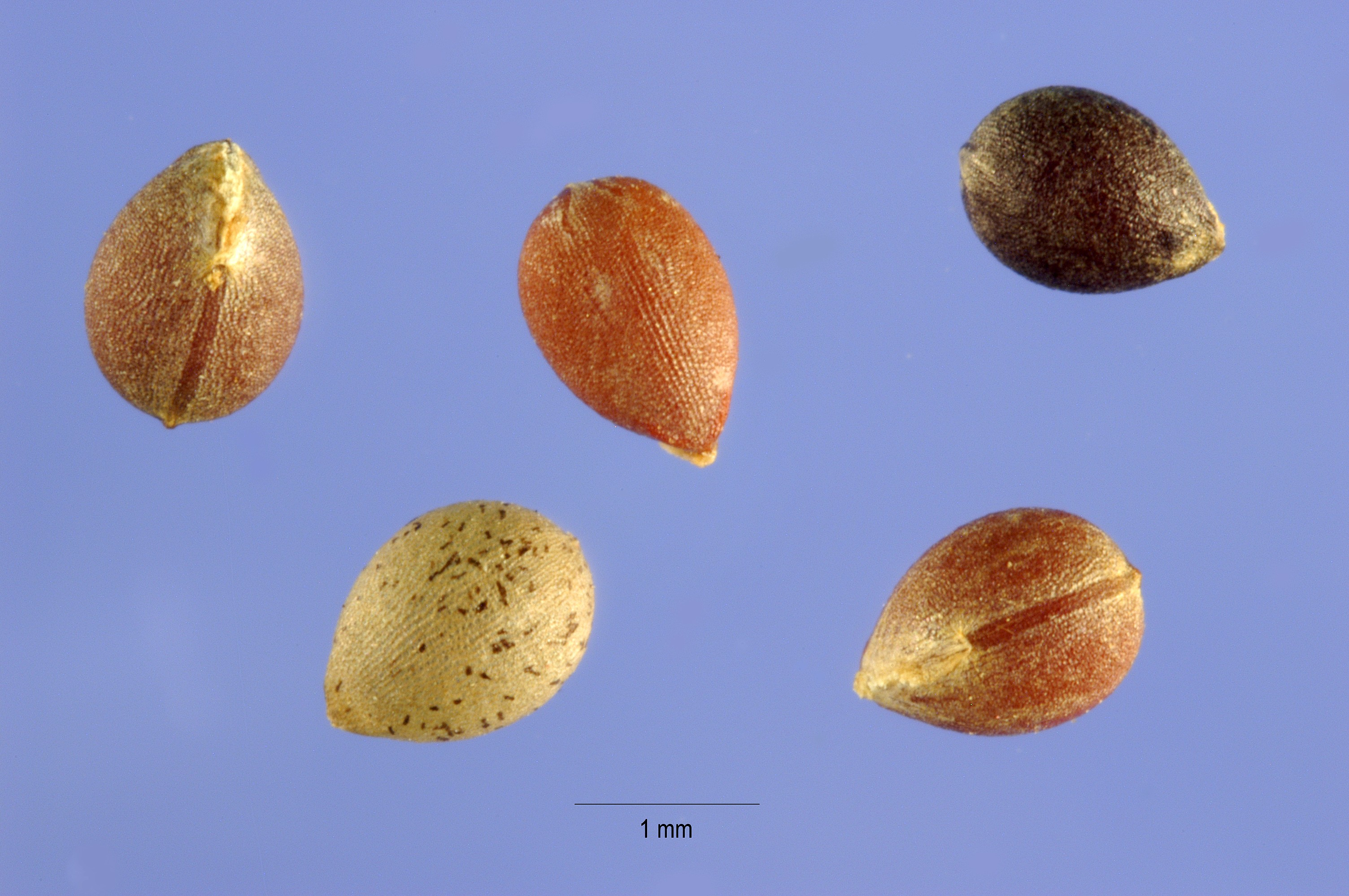 Virginia Threeseed Mercury. Seeds. Washington, DC, USA.